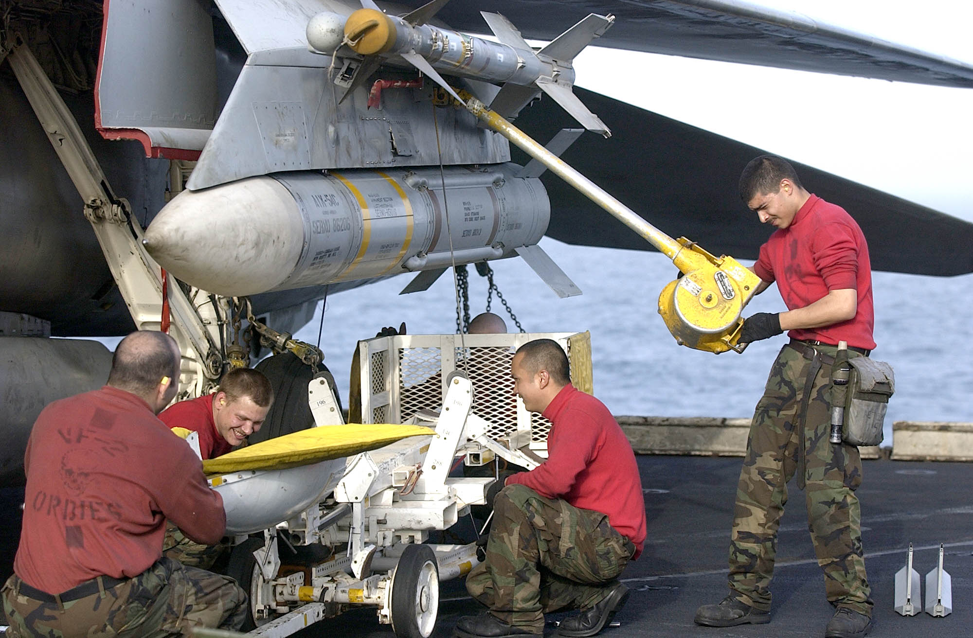 U.S. Navy Aviation Ordnanceman install an AIM-54C Phoenix long-range air-to-air missile under the wing of a F-14D Tomcat assigned to the “Bounty Hunters” of Fighter Squadron 2 (VF-2) onboard the aircraft carrier USS Constellation (CV-64) in the Arabian Sea. VF-2 was assigned to Carrier Air Wing 2 (CVW-2) aboard the Constellation for a deployment in support of Operation Iraqi Freedom from 2 November 2002 to 2 June 2003.